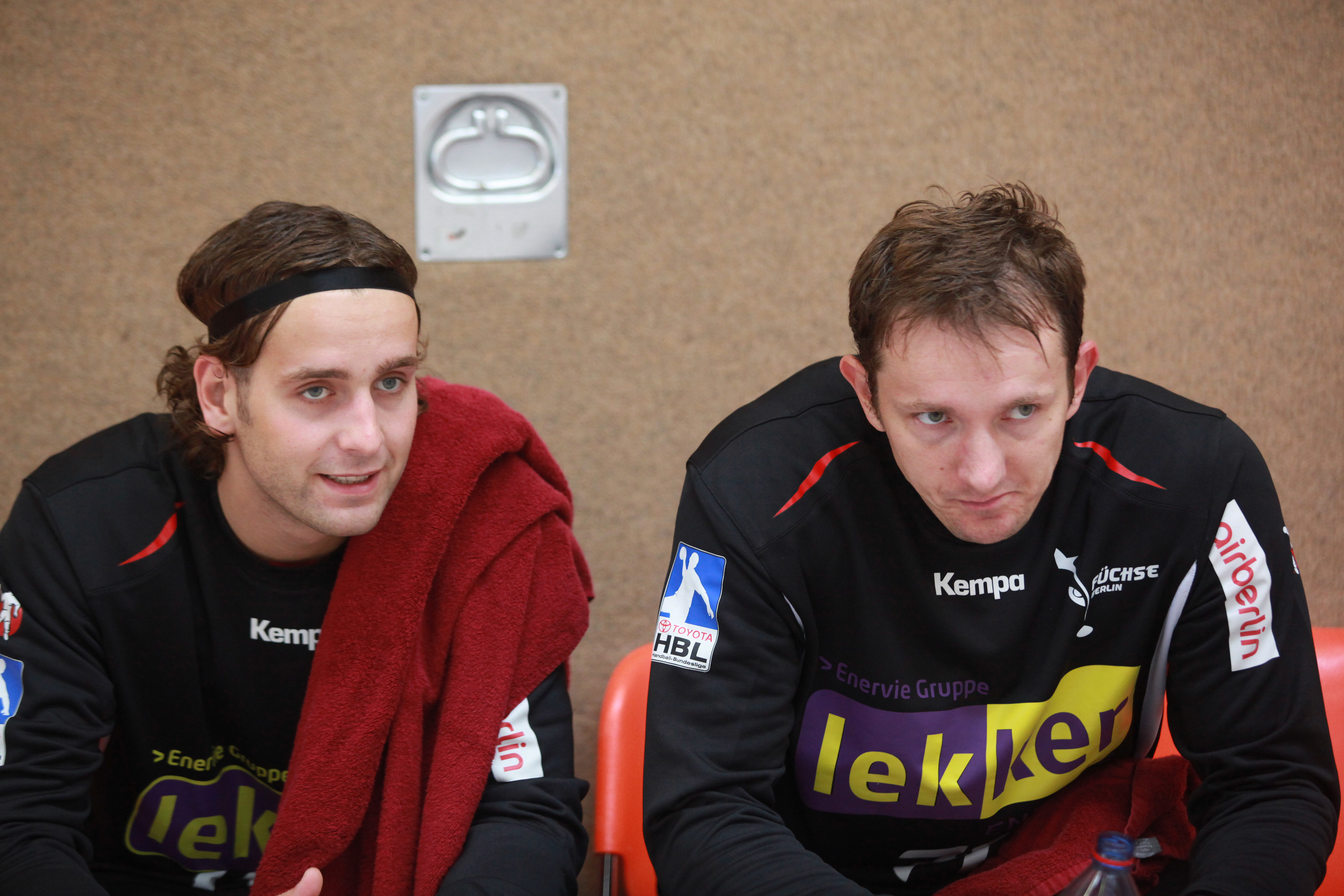 Silvio Heinevetter and Petr Štochl goalkeepers from Füchse Berlin, on August 14th, 2010 in Ehingen (Germany).